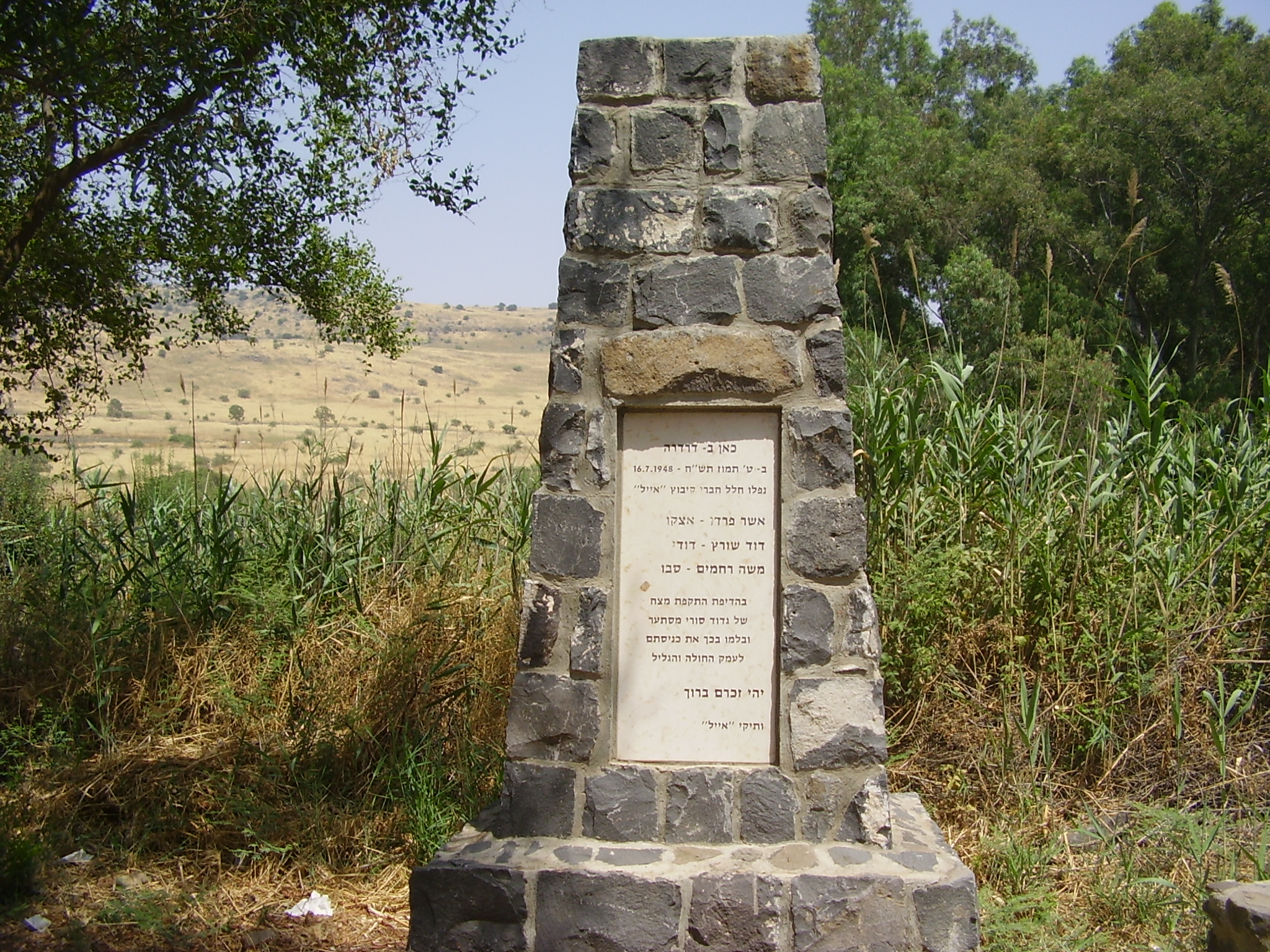 War memorial in Dardara, Israel